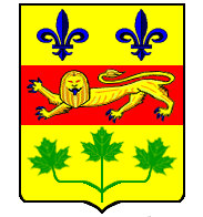 the previous arms of the province of Quebec Copyright (c) 2005 Marc Pasquin.